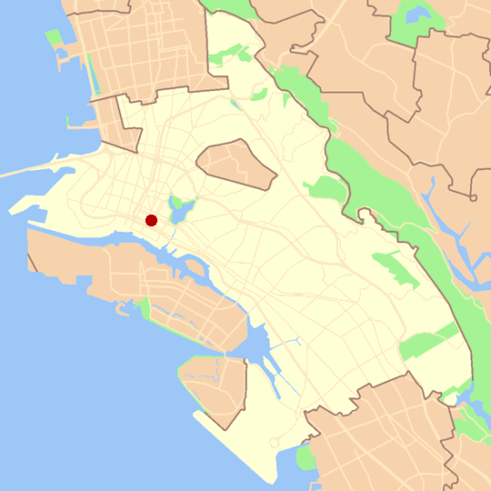 Map showing the location of Chinatown in the city of Oakland, California. Created by Nogood using U.S. Census Bureau data.